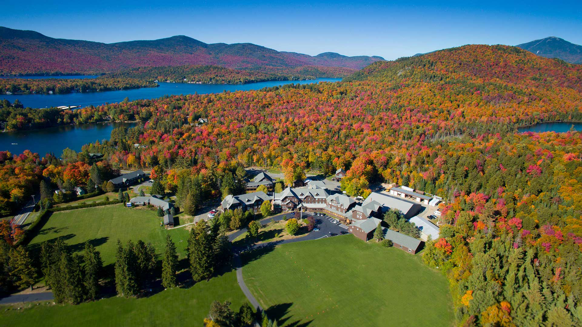 Overhead view of Northwood School's campus in Lake Placid, New York, Mirror Lake and Lake Placid in the background.